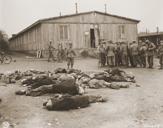 American soldiers view the bodies of prisoners that lie strewn on the ground in the newly liberated Ohrdruf concentration camp.